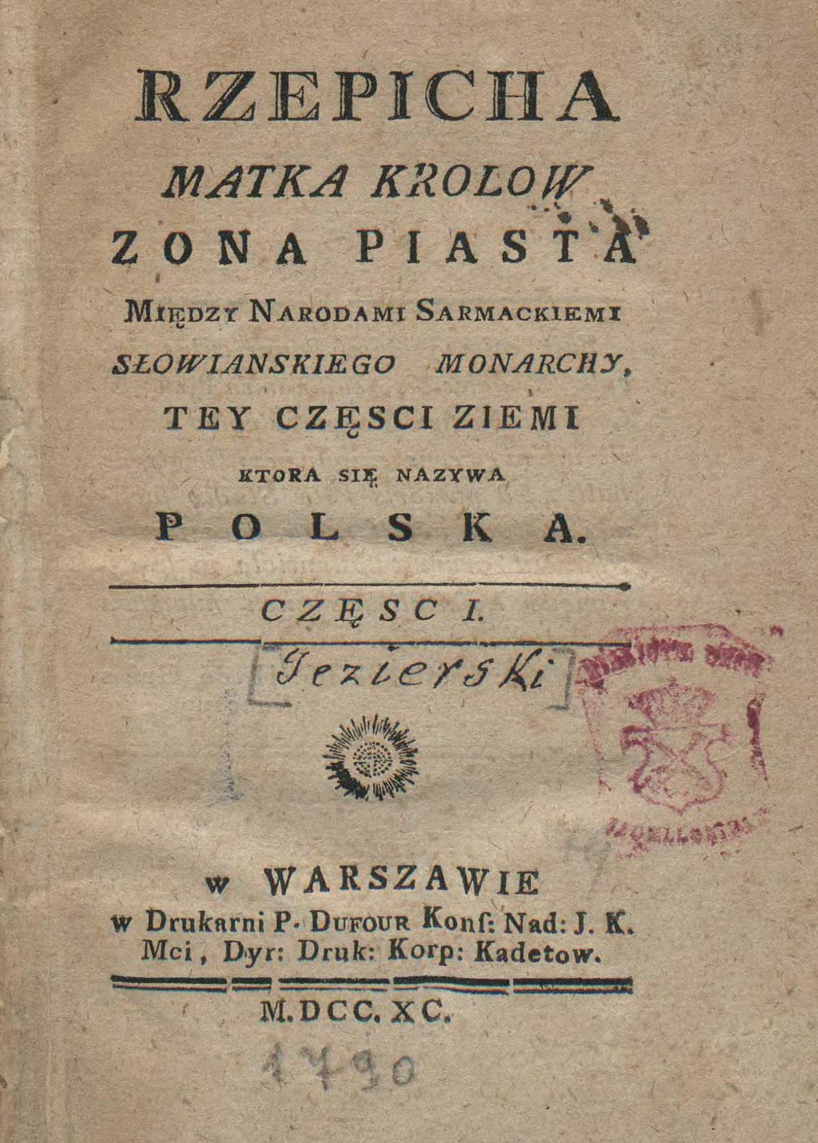 Title page of Rzepicha, matka królów by Franciszek Salezy Jezierski.